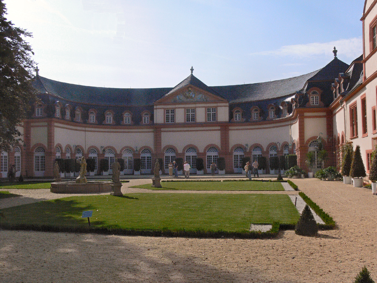 Photograph of Orangerie at Weilburg, Germany